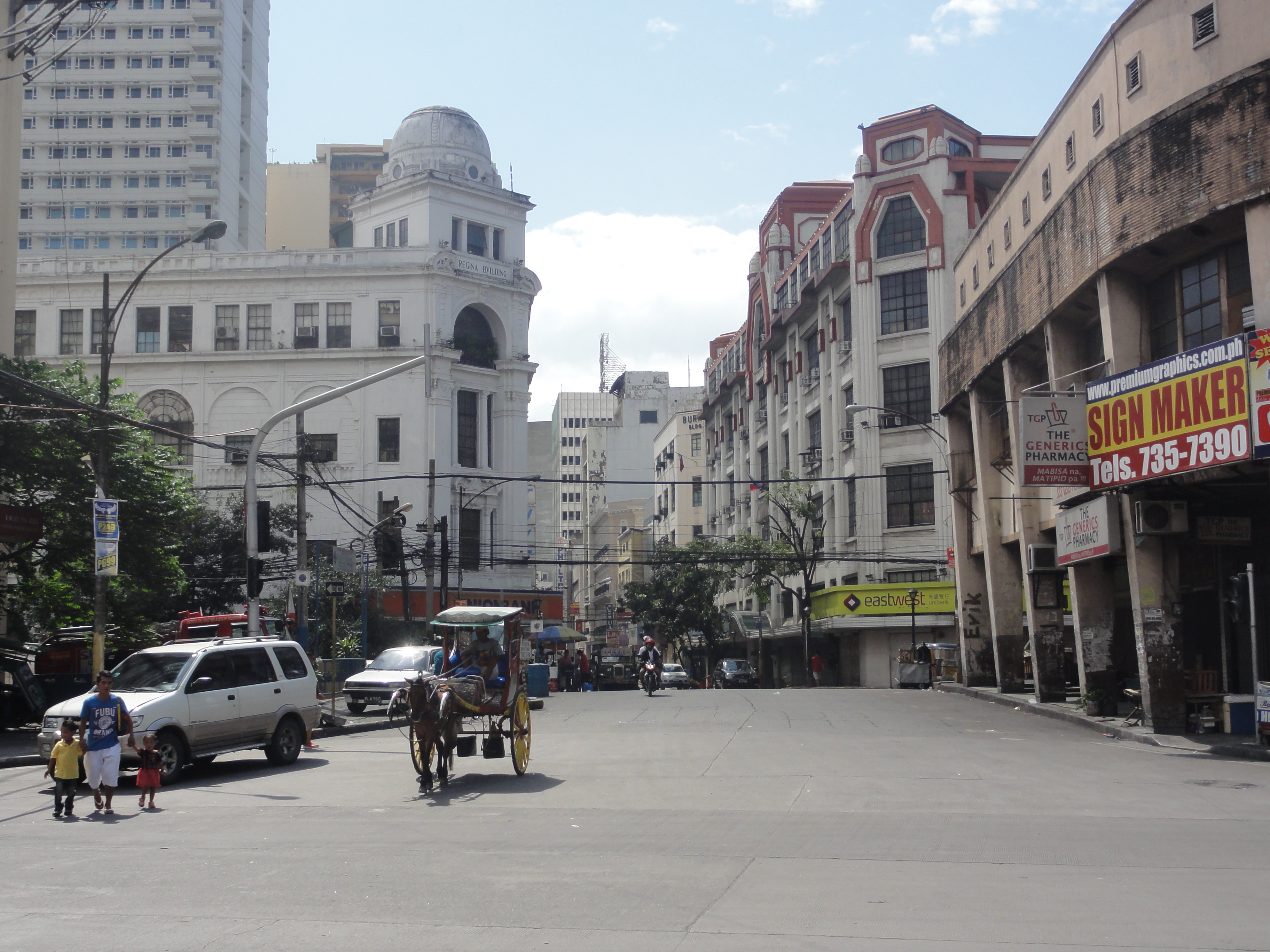 View of east end of Escolta Street in Binondo, Manila as of November 2014. Also seen on the photo are Regina Building and First United Building.